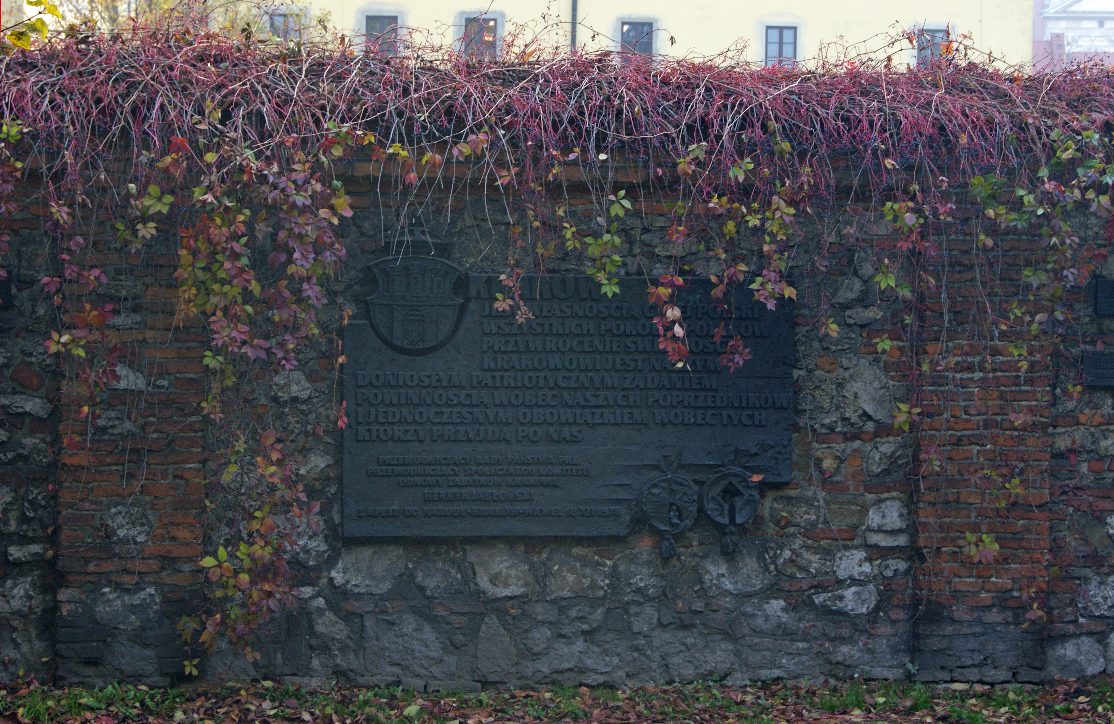 Commemorative plaque, Planty Park, Old Town, Krakow, Poland